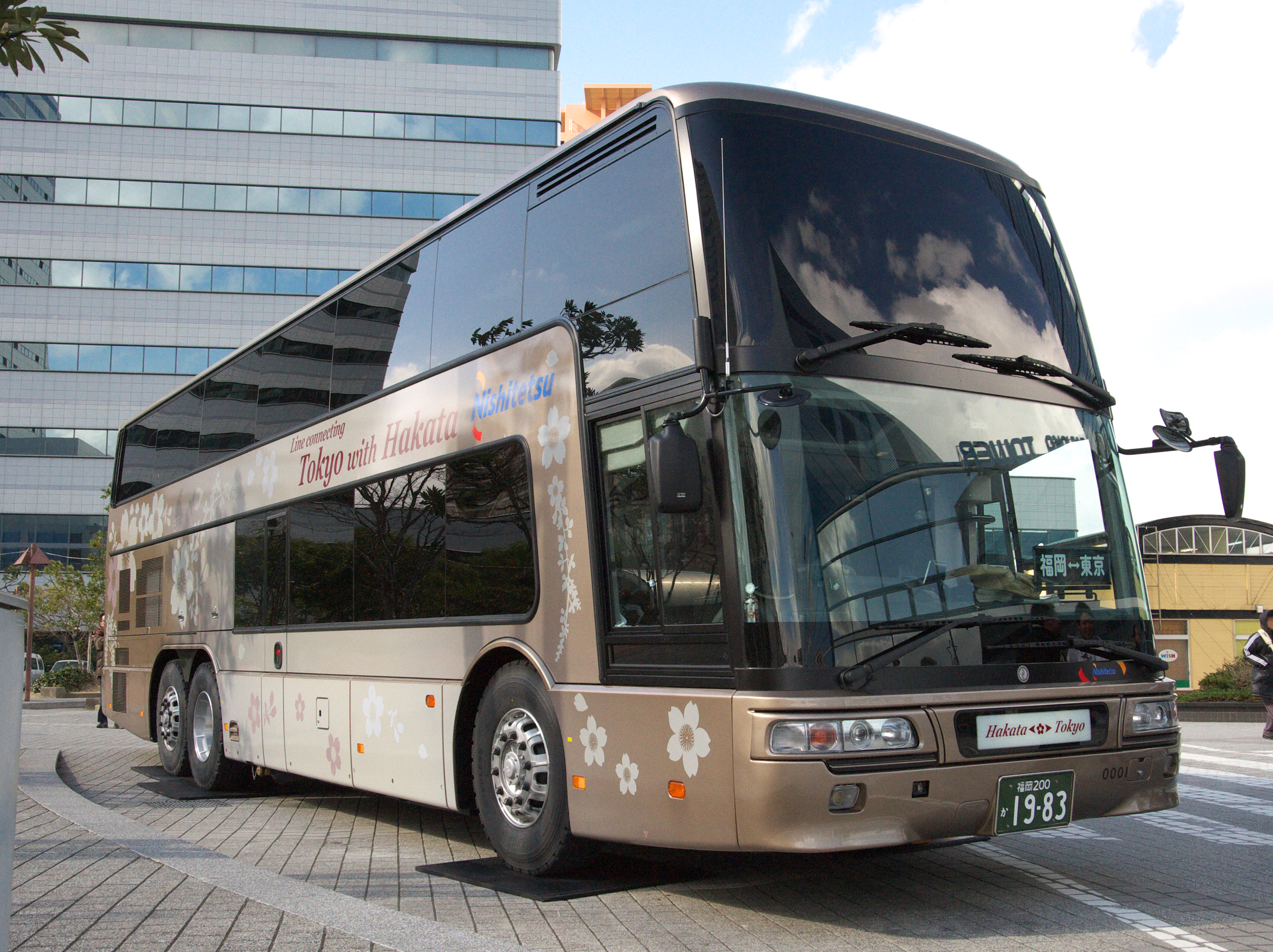 Nishi-Nippon Railroad Co., Ltd. Highway Bus "HAKATA" (Double-Decker)